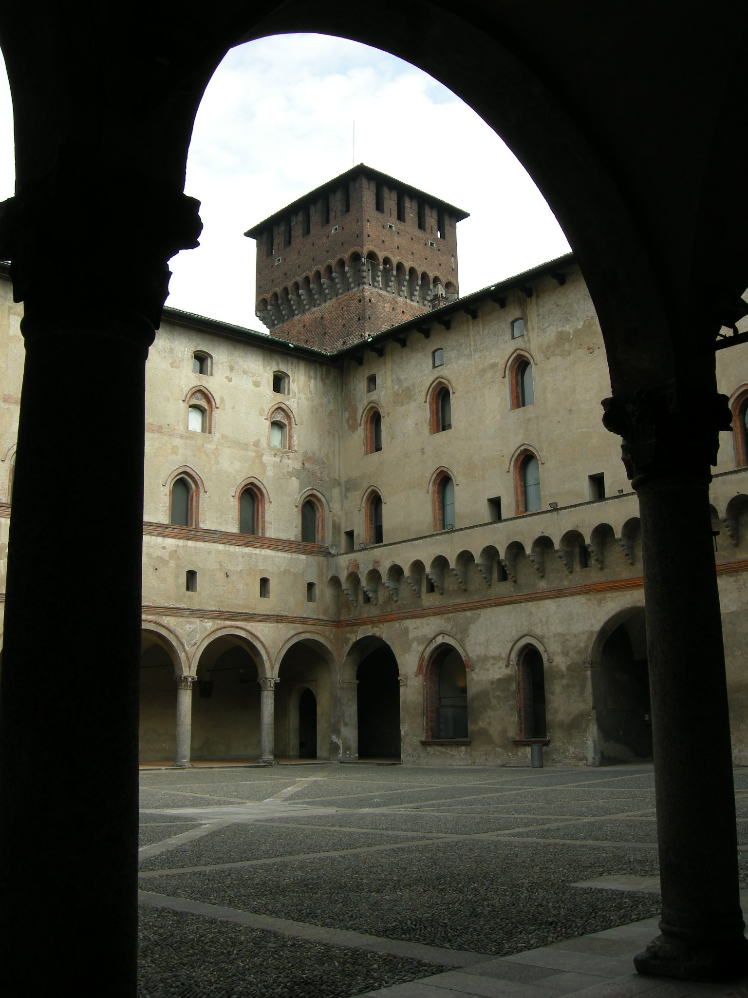 Bona of Savoy's tower